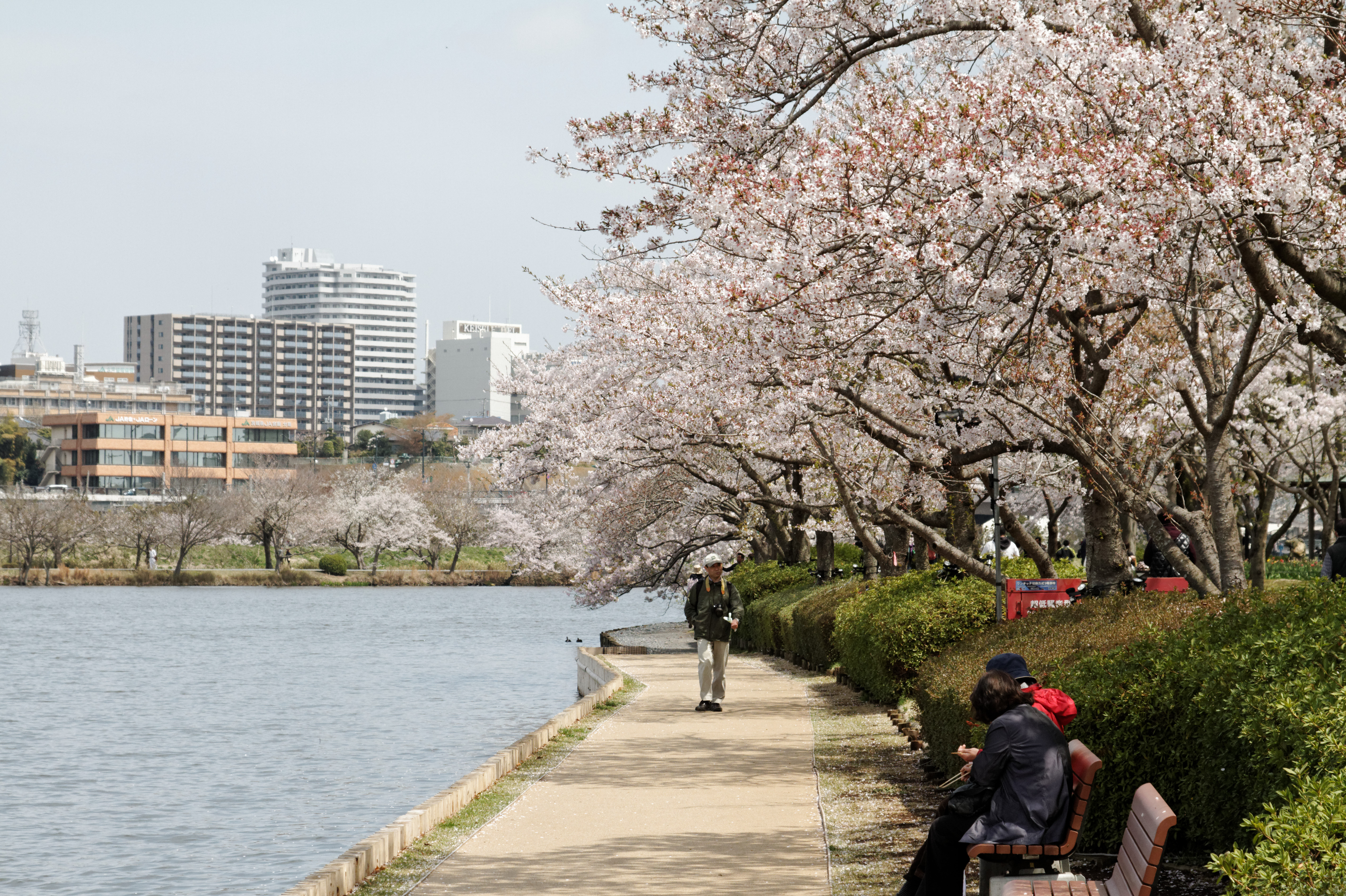 Kairakuen